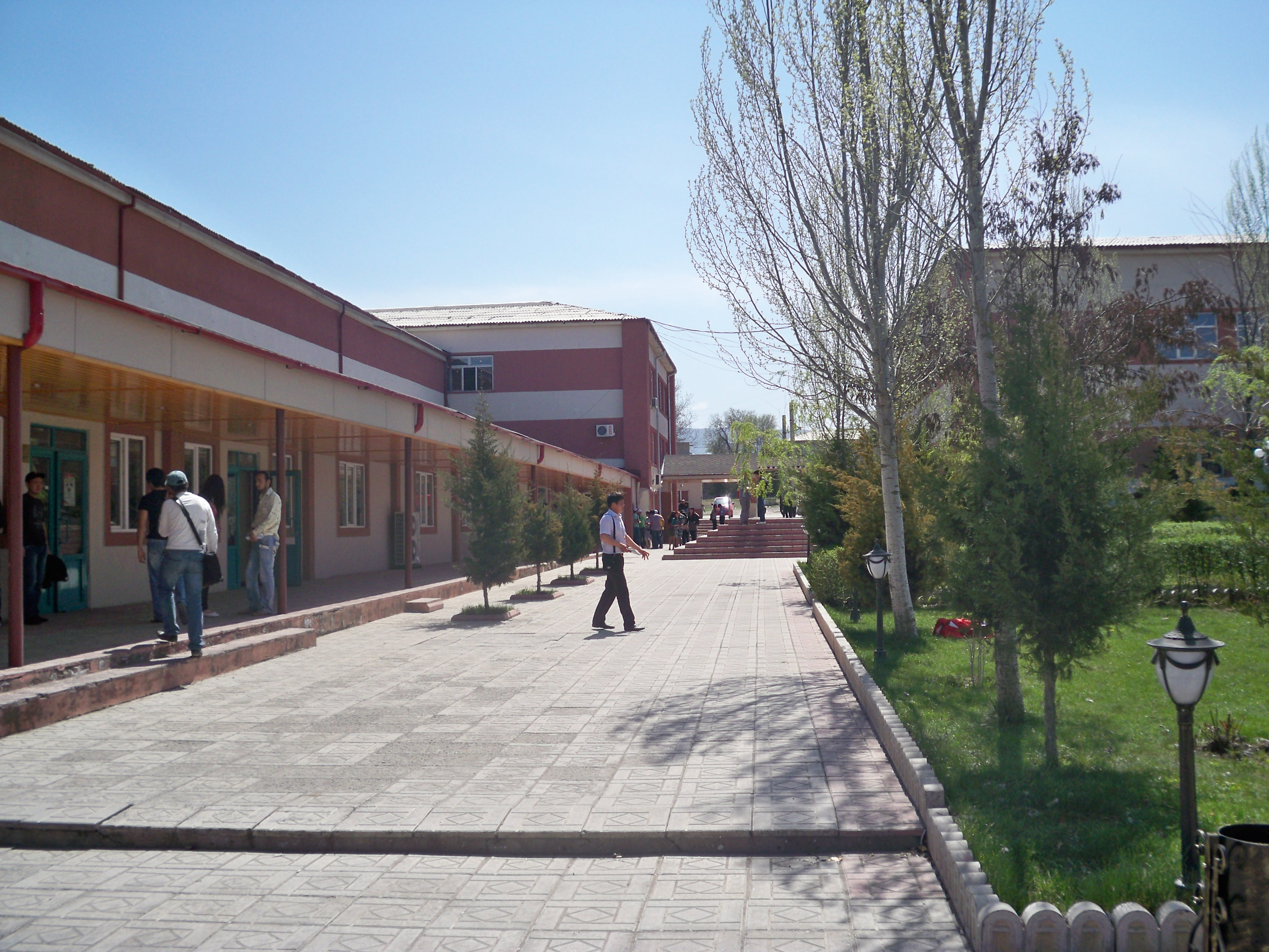 The main campus of the IAAU